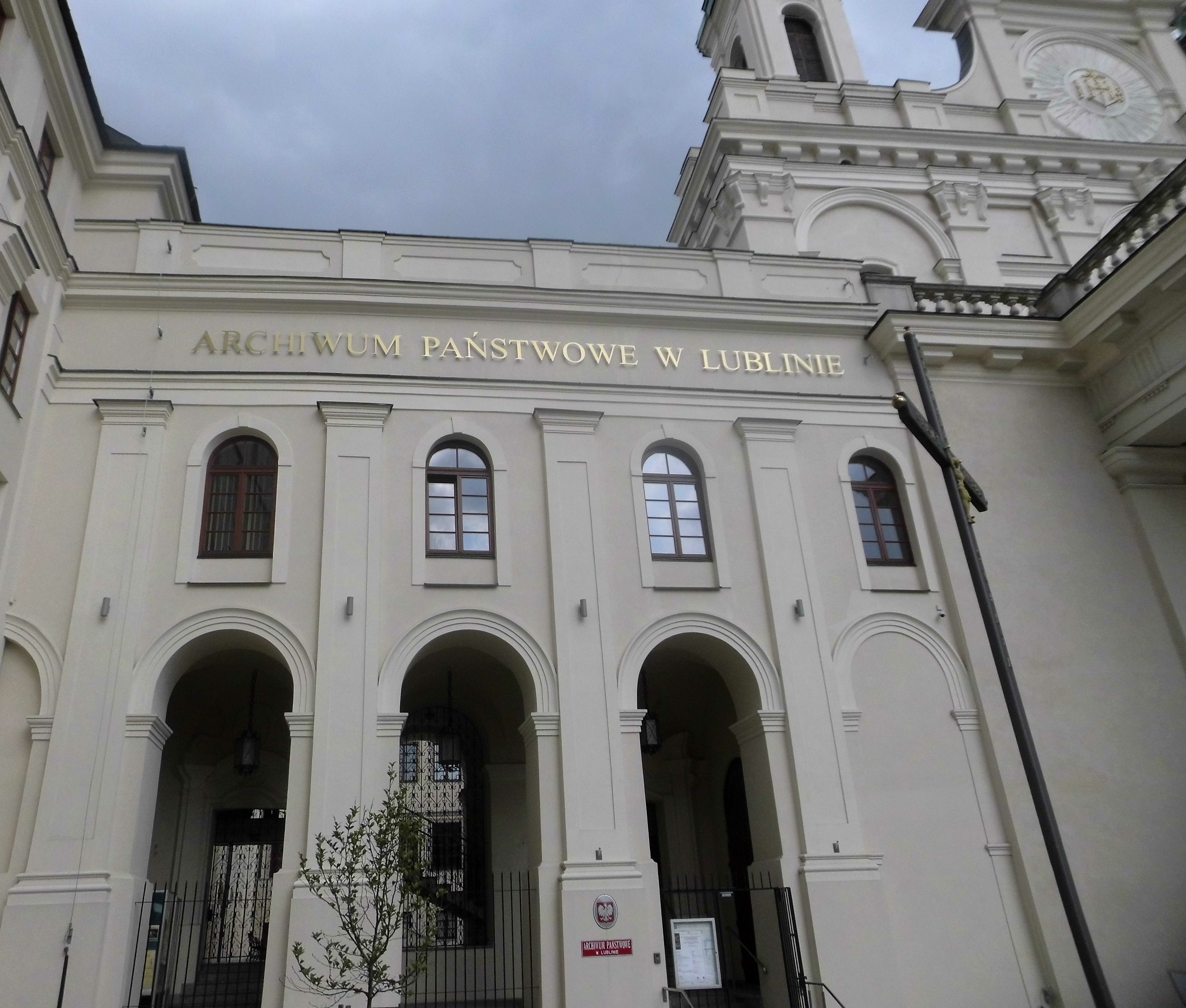 Archiwum Państwowe w Lublinie